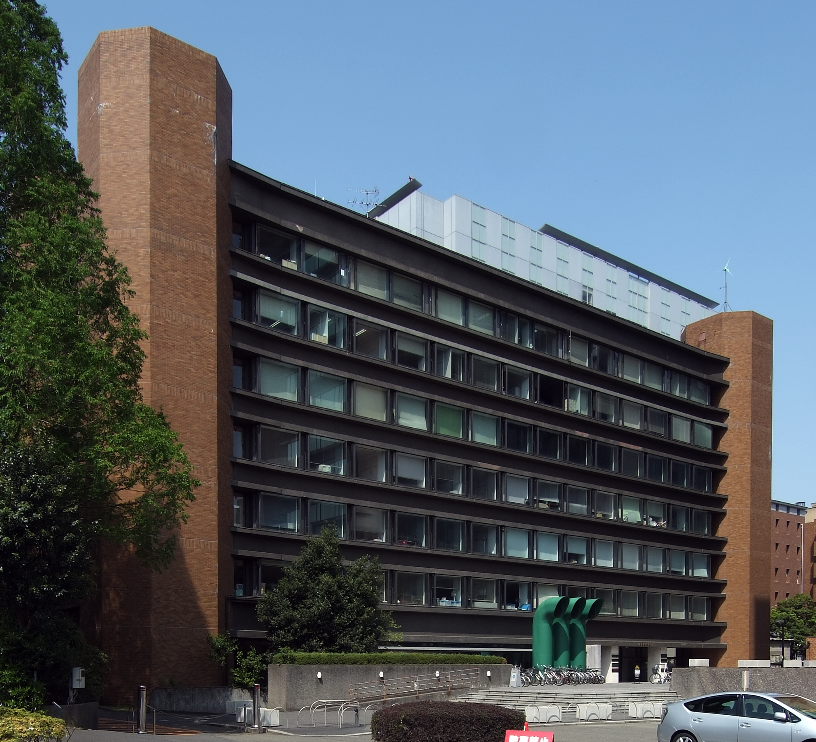 Administration Bureau Bldg.2 of Tokyo University, at Bunkyo-ku Tokyo Japan, Design by Kenzo Tange in 1976.